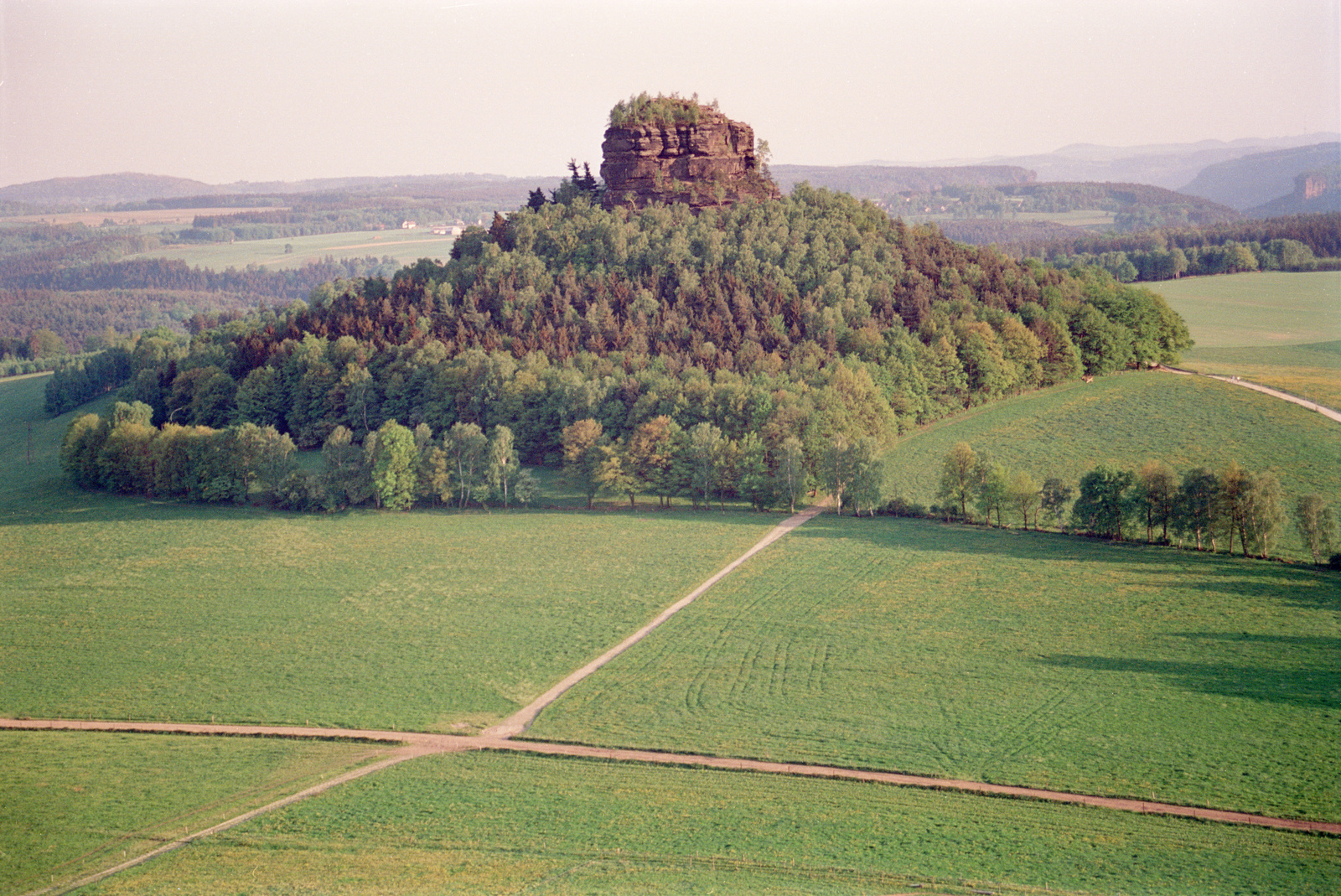 own picture, taken in 1998 shows the mountain "Zirkelstein" in saxony swiss